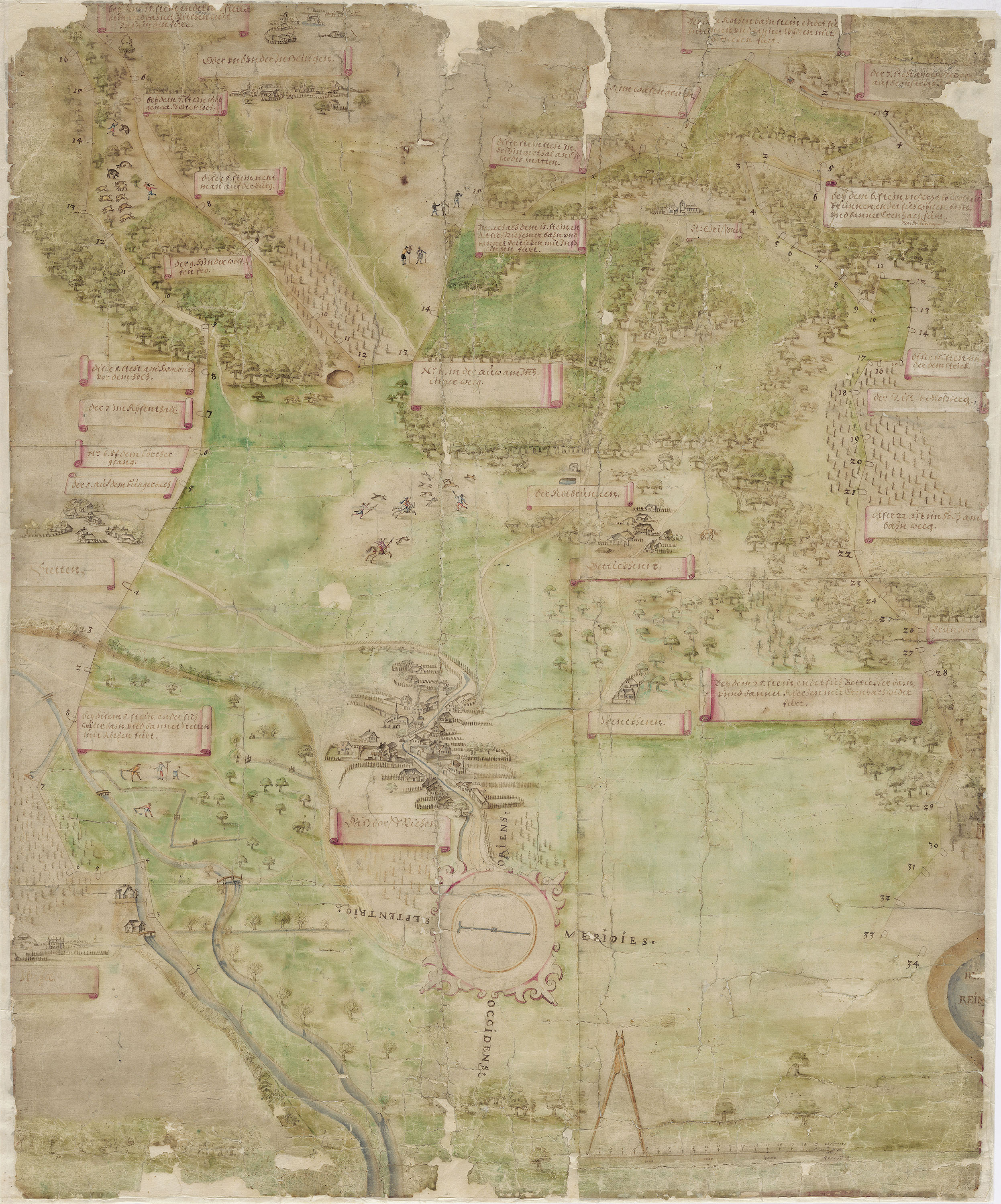 Bann von Riehen und von Bettingen